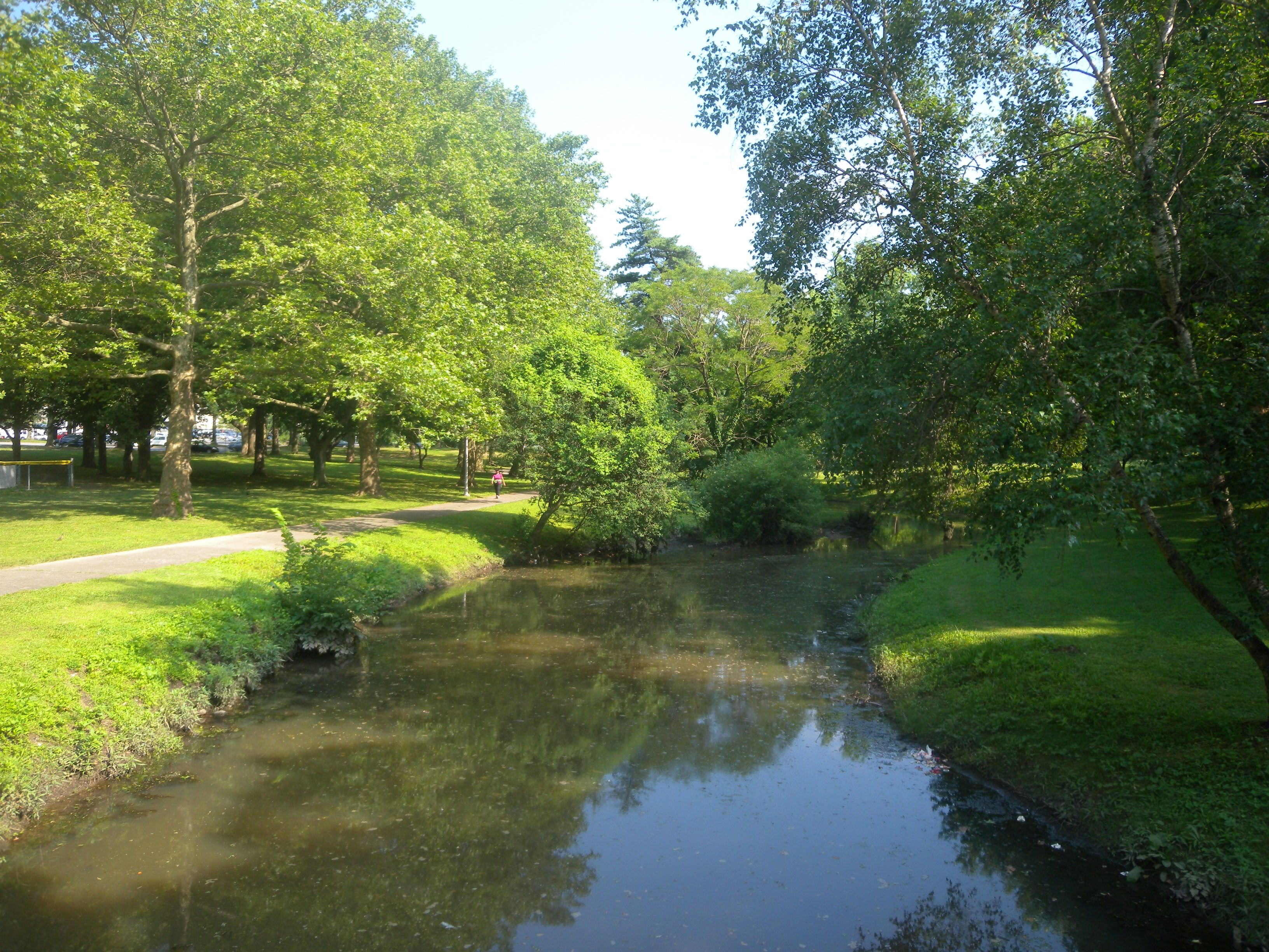 Looking south in Manhasset Valley Park on a sunny afternoon.